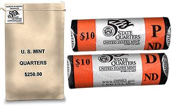 Image of a 1000 Unc U.S. mint Quarter-Dollar coin bag and two Unc U.S. mint $10(40 quarter) rolls